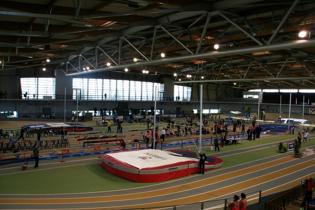 The Stadium Jean-Pellez in Aubière when there's the competition Capitale Perche